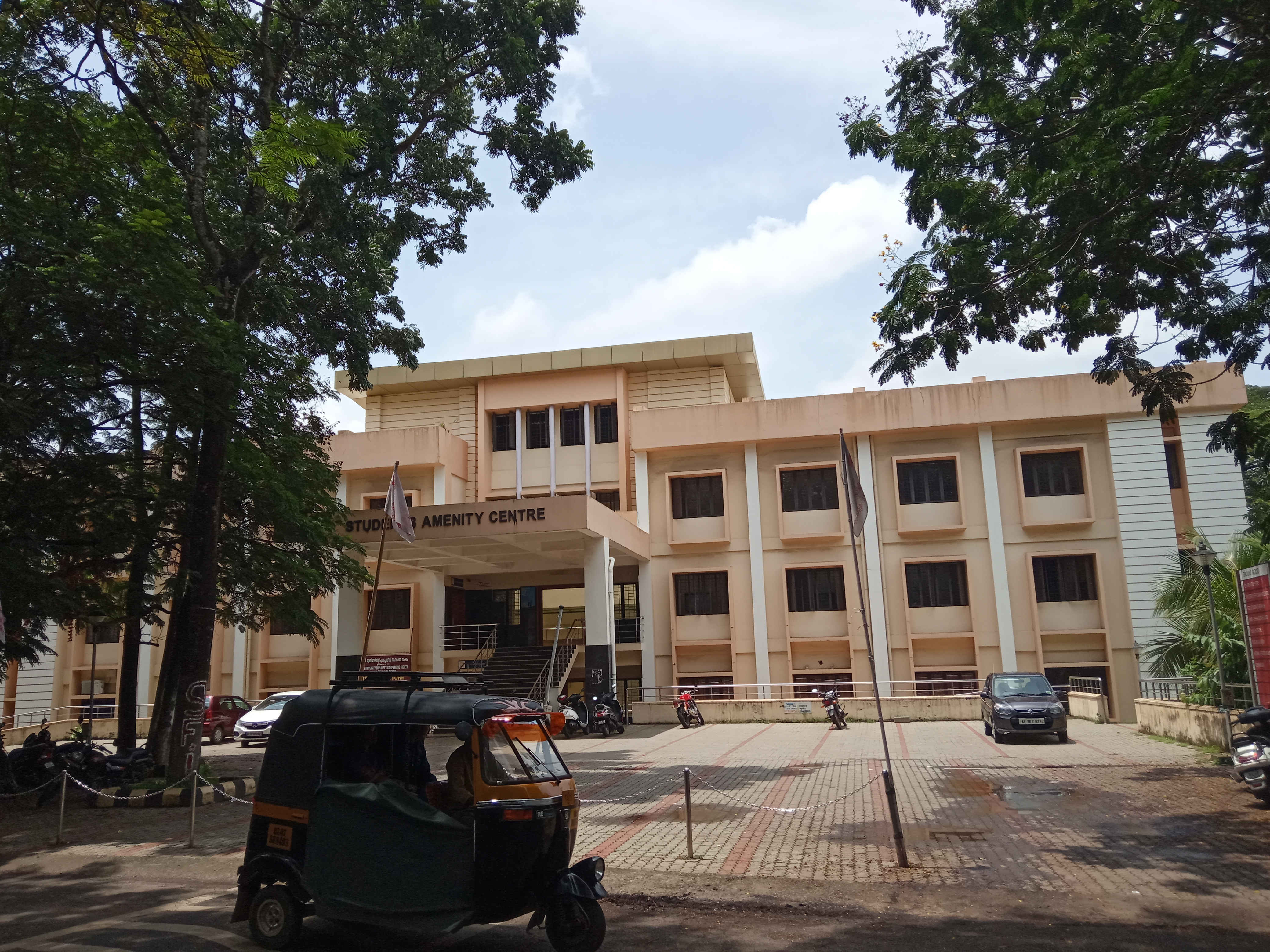 SERENE BUILDING CONTAINING AMENITIES CENTRE